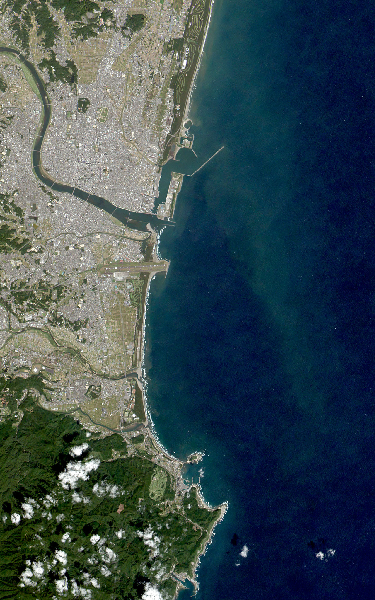 The city of Miyazaki, Japan, as viewed from Hodoyoshi-1 satellite.